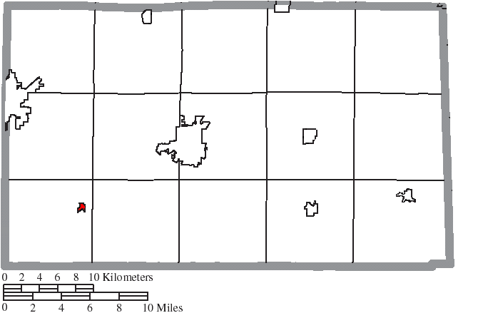 Map of the municipal and township boundaries of Seneca County, Ohio, United States, as of the 2000 census, with the location of the village of New Riegel highlighted. Township borders are shown only in unincorporated areas in order to differentiate incorporated and unincorporated areas more clearly.